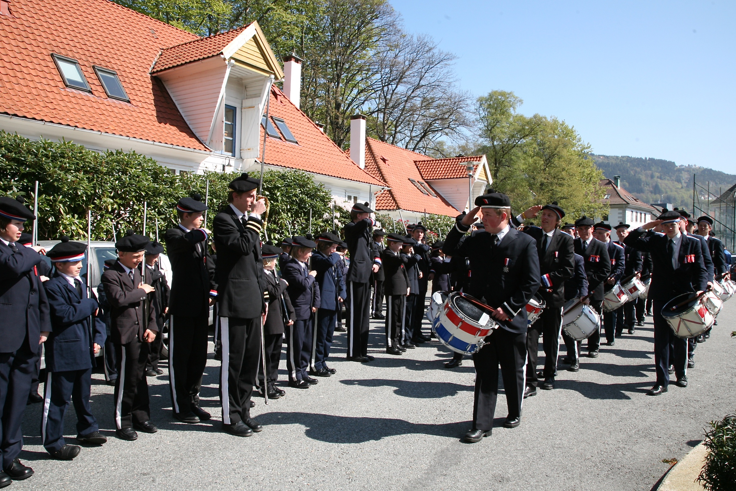 Nordnæs Bataillon